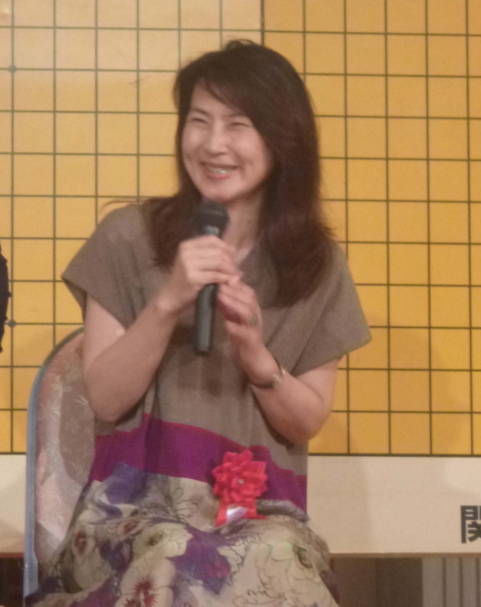 Japanese go player Mika Yoshida at the talk show event of World Go Festival in Takarazuka, Hyōgo, Japan.